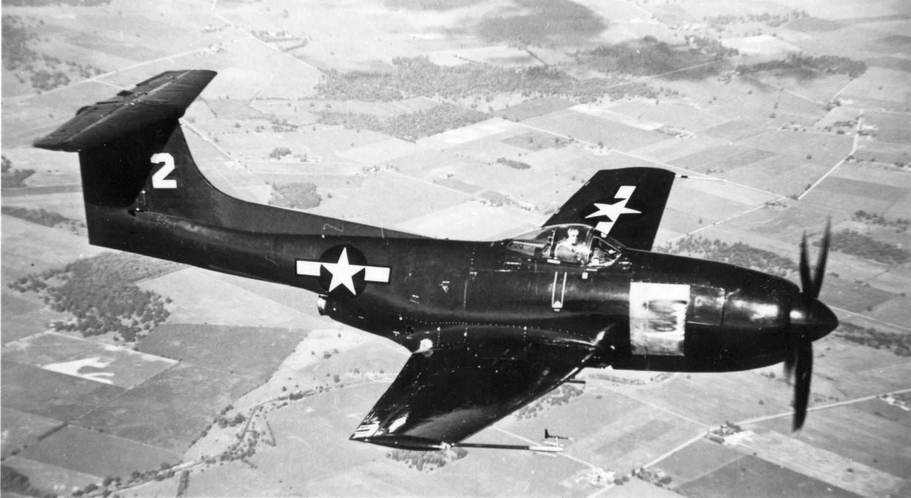 Curtiss XF15C-1 (BuNo.01215) mixed-power fighter prototype in flight.